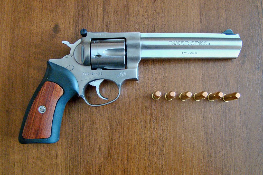 Ruger GP-100 (mod. KGP-161) revolver